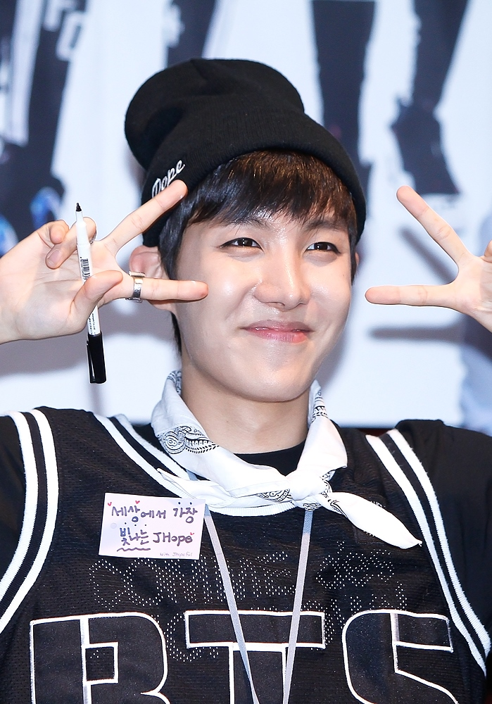 J-Hope at an fansign on July 14, 2013.